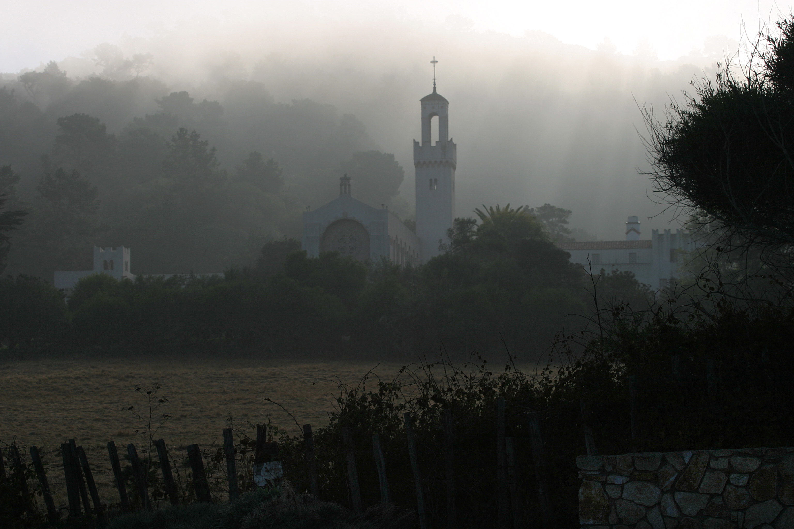 Carmelite monastery in California, USA